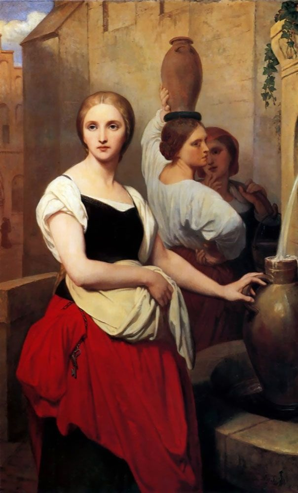 Margarete at the fountain